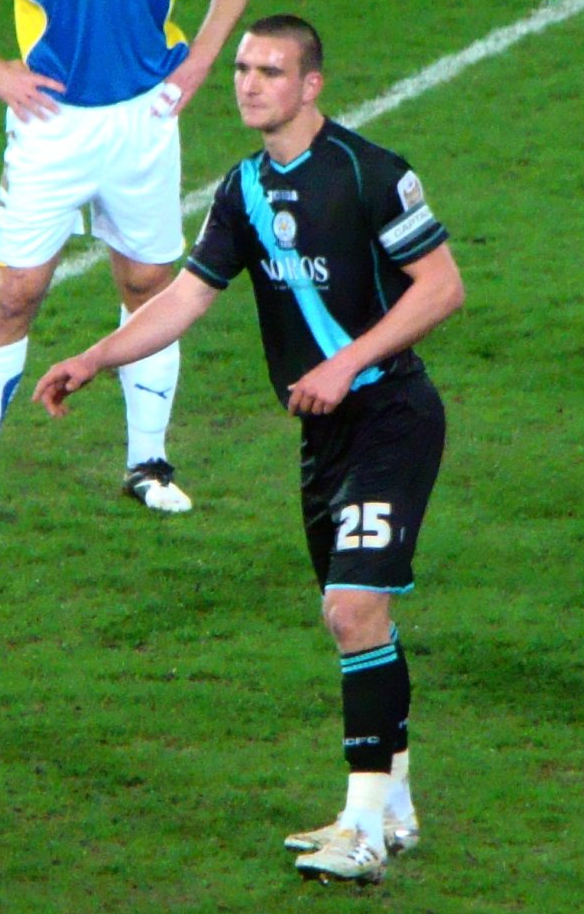 30/03/10 Cardiff V Leicester, Championship, Cardiff City Stadium, Cardiff, Wales